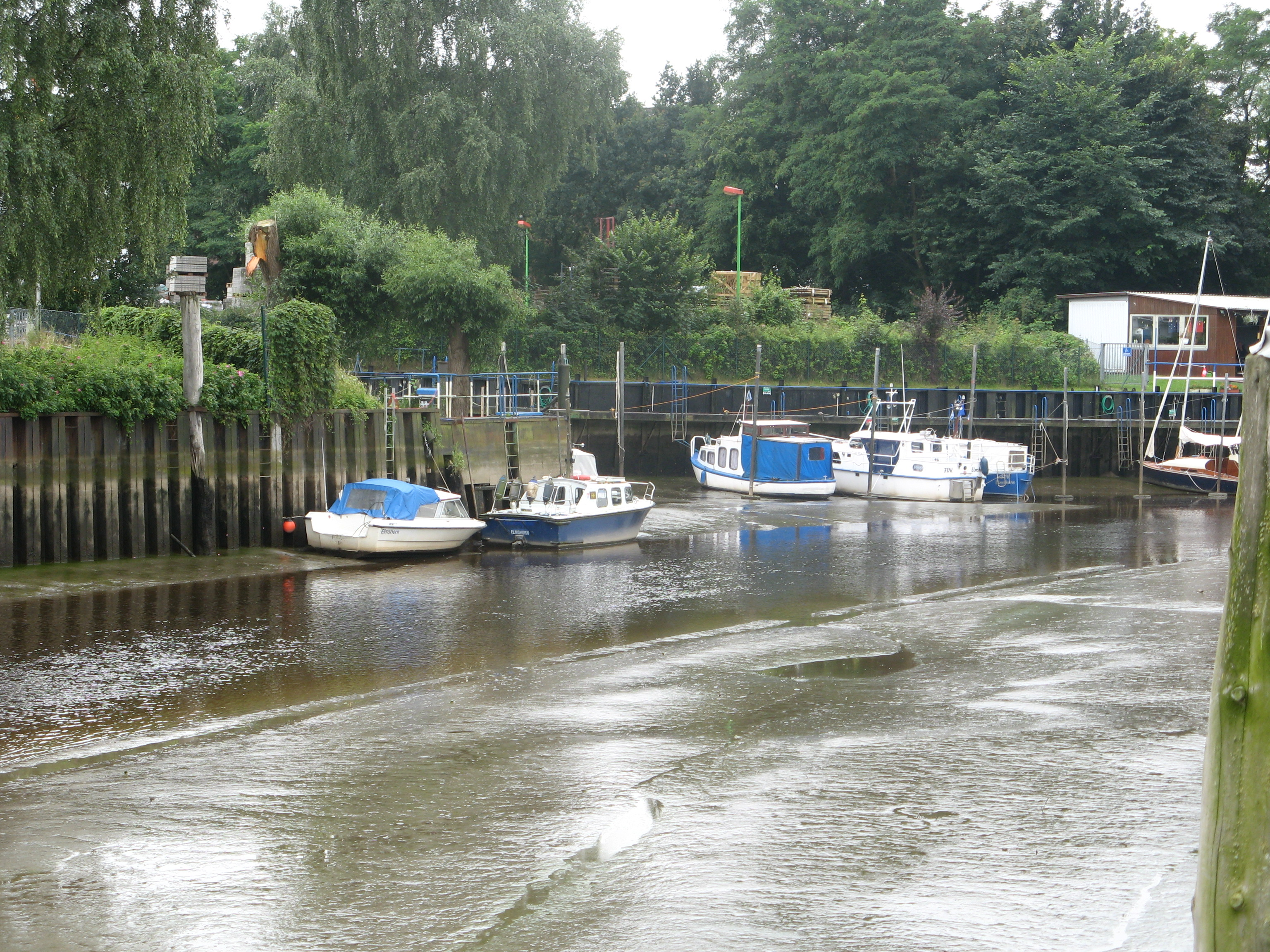 elmshorn harbour